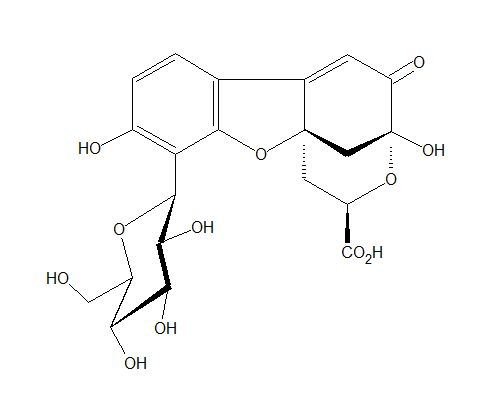 This is the structure of "matlaline", a fluorescent substance from the Mexican tree Eysenhardtia polystachya (Ort.) Sarg. (formerly "Lignum nephriticum"). It fluoresces sky blue in aqueous solution. First reported in Europe in 1565.